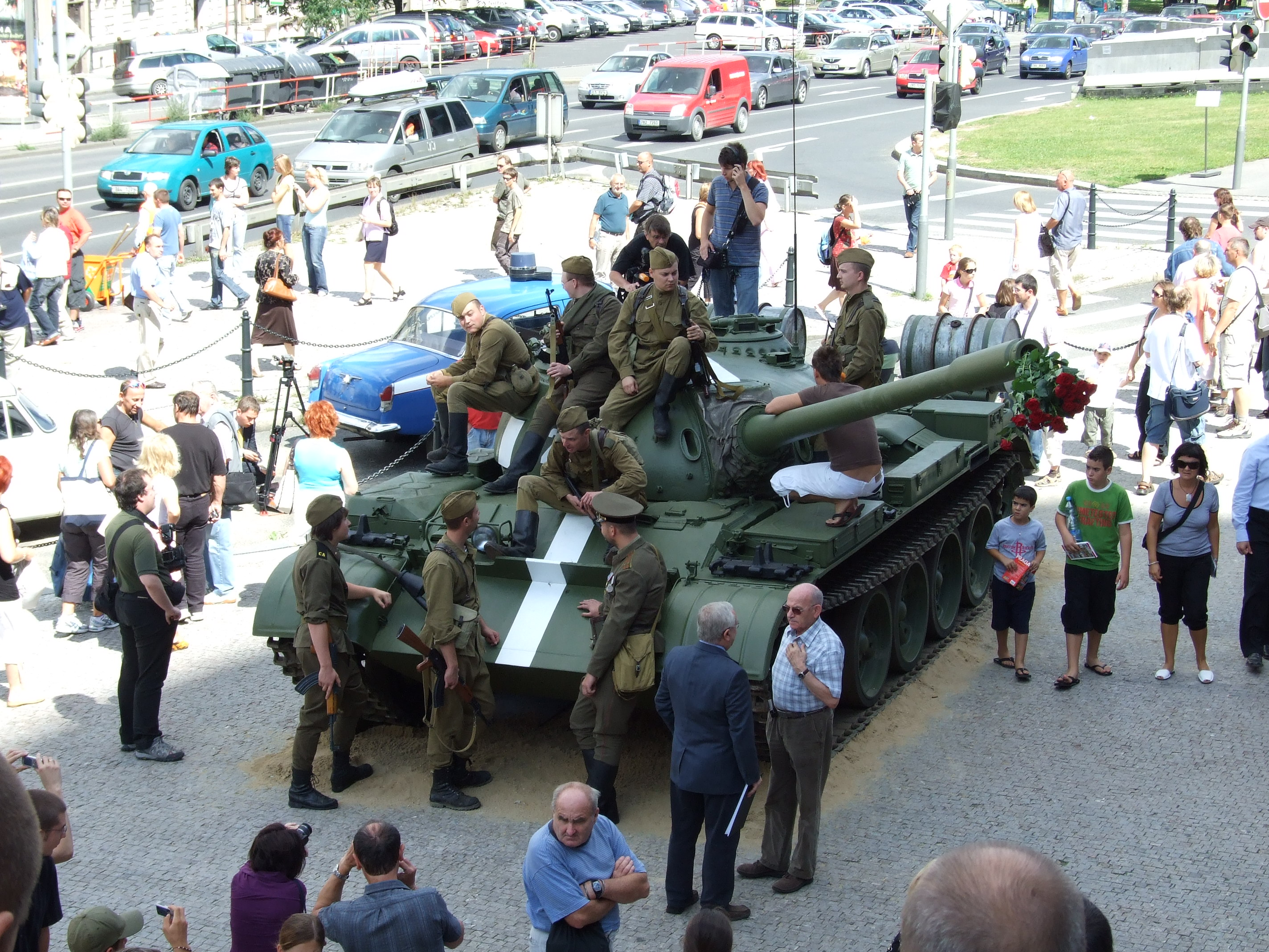 Exhibiton for 40th annivesary of Occupation of Czechoslovakia in Prague. T-54 soviet tank can be seen, cars of 1960's and military trucks were also on displayhelp